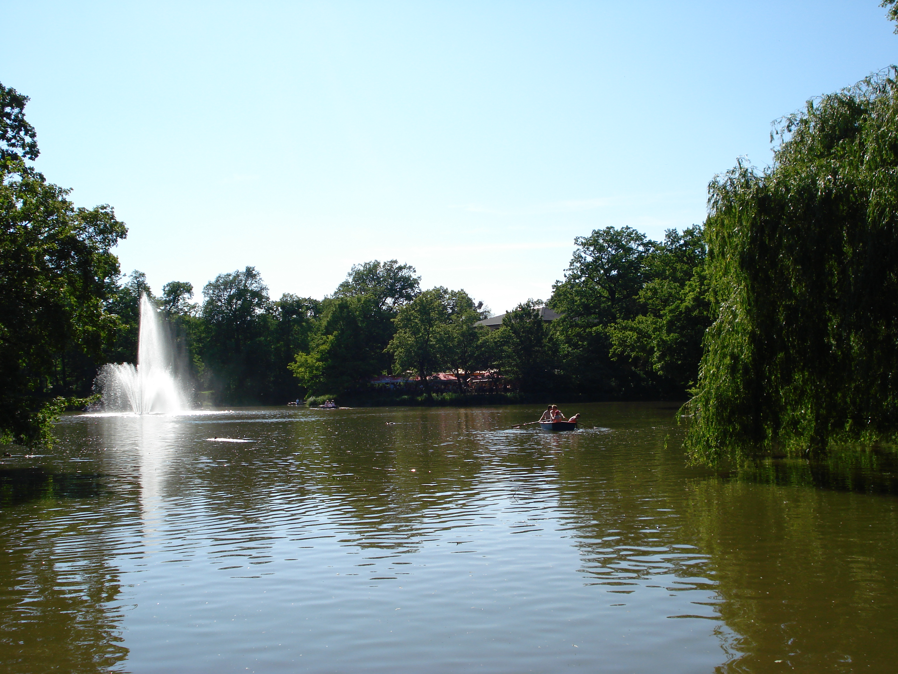 Carolasee in the City Park Dresden (Großer Garten Dresden)